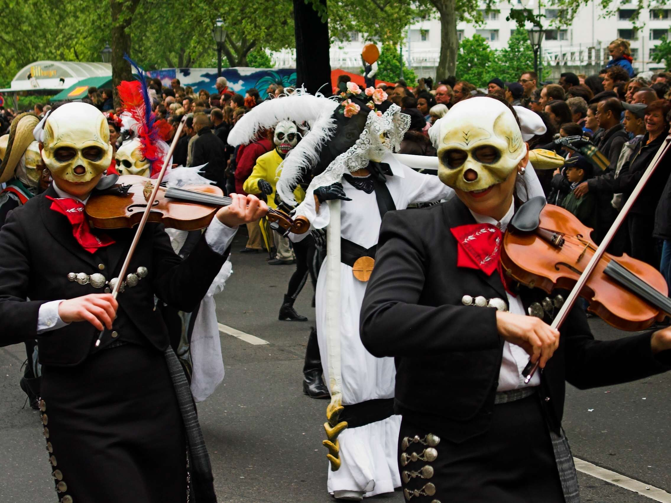 Carnival of cultures, Berlin May 2005 Karneval der Kulturen in Berlin